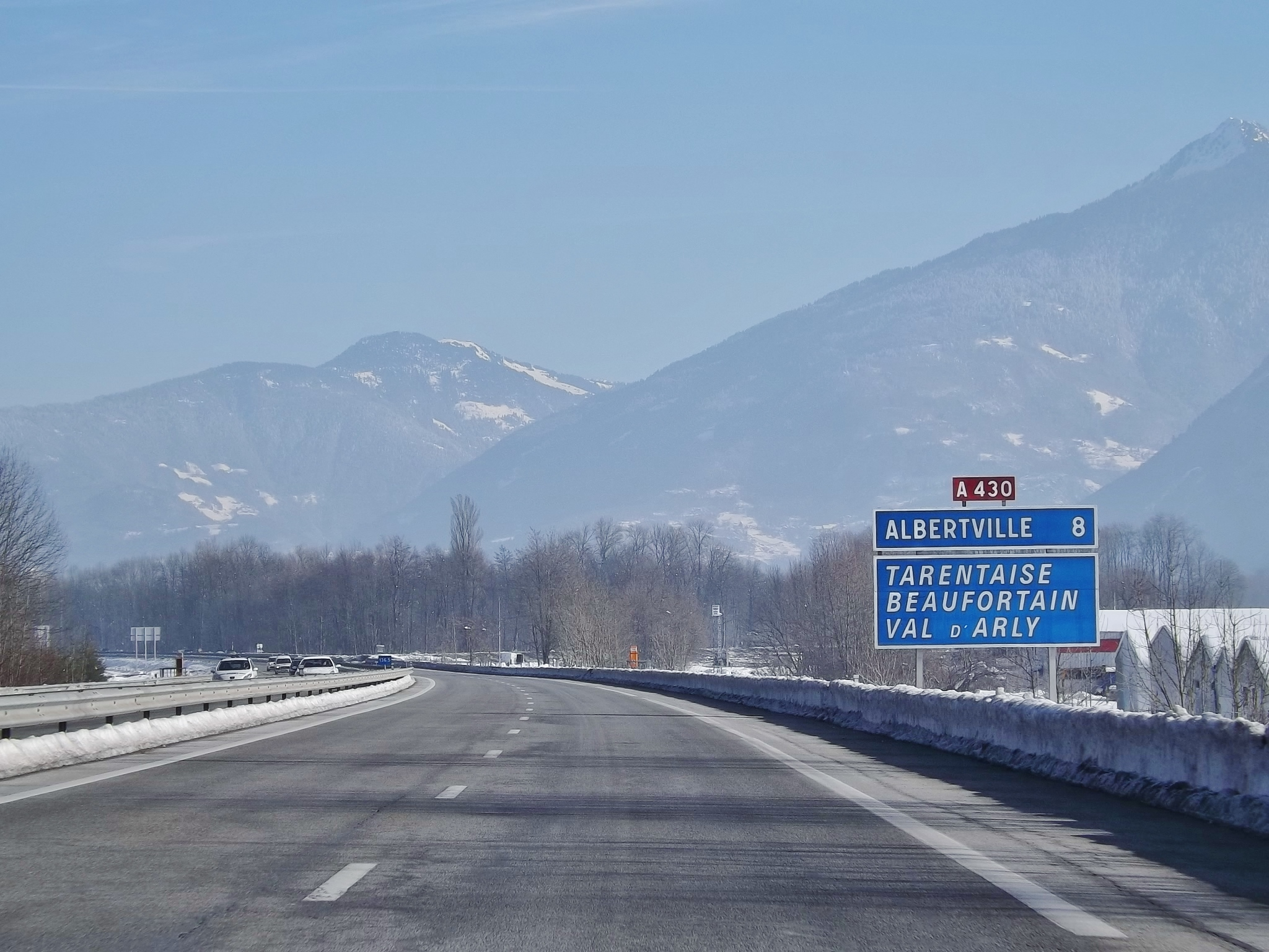 Sight of the A 430 motorway 8 km from Albertville, with indicated the main Alpine valleys, in Savoie, France.